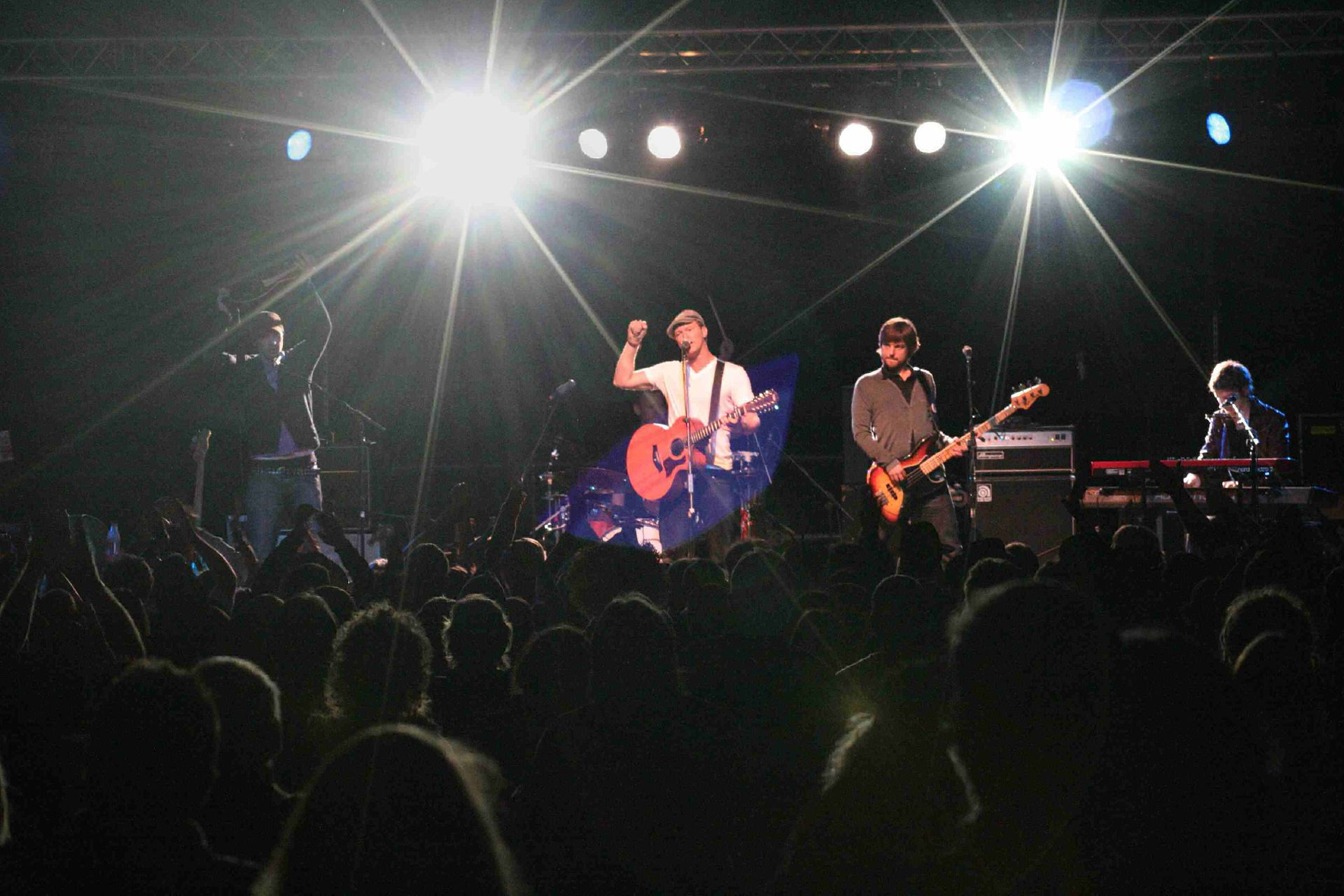 Ben's Brother